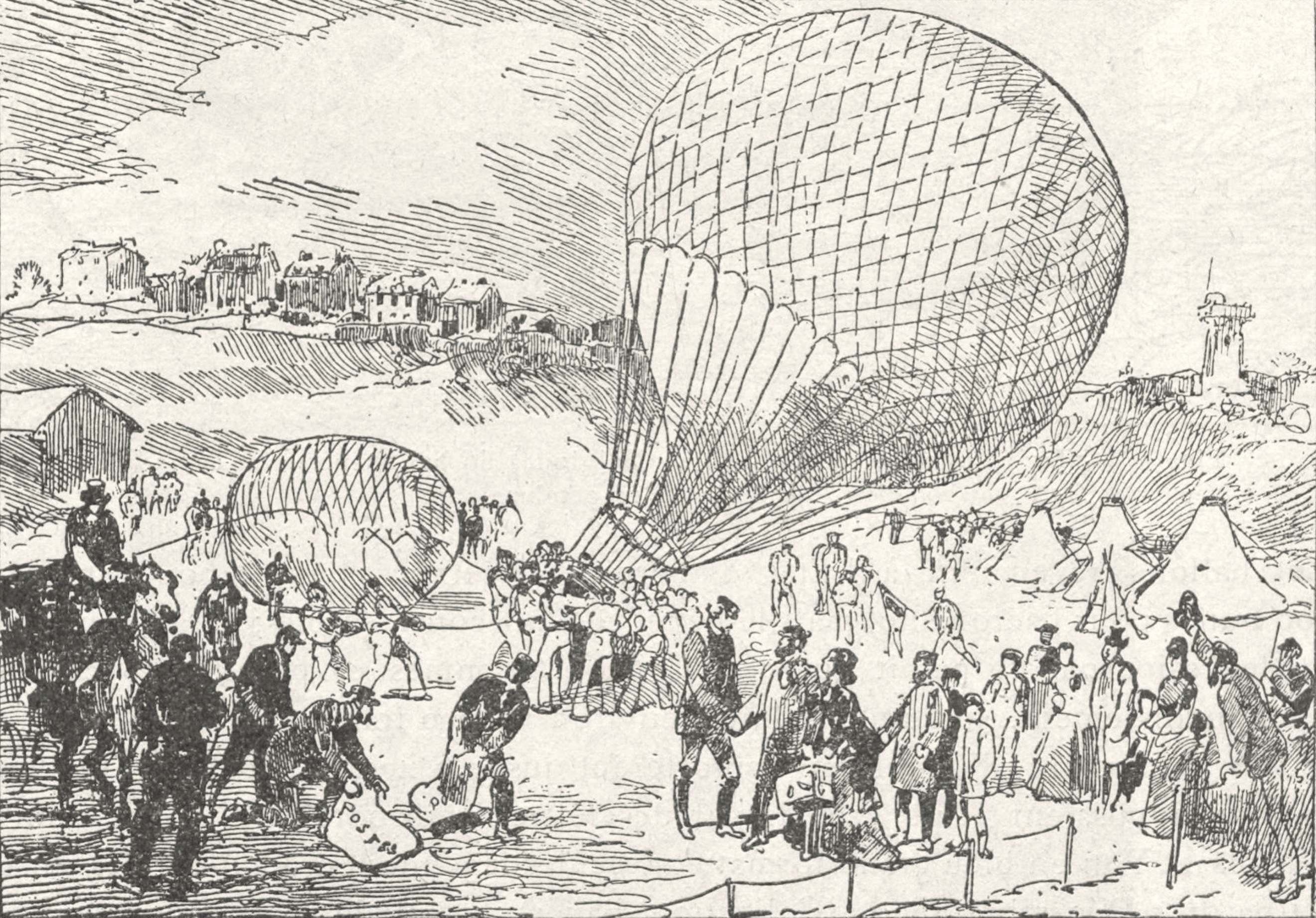 Drawing depicting the departure of the Louis Blanc, one of the 66 balloon mail that left Paris during the Siege of Paris (1870-71). The Louis Blanc was the 10th sent. Pilot: Eugène Farcot.